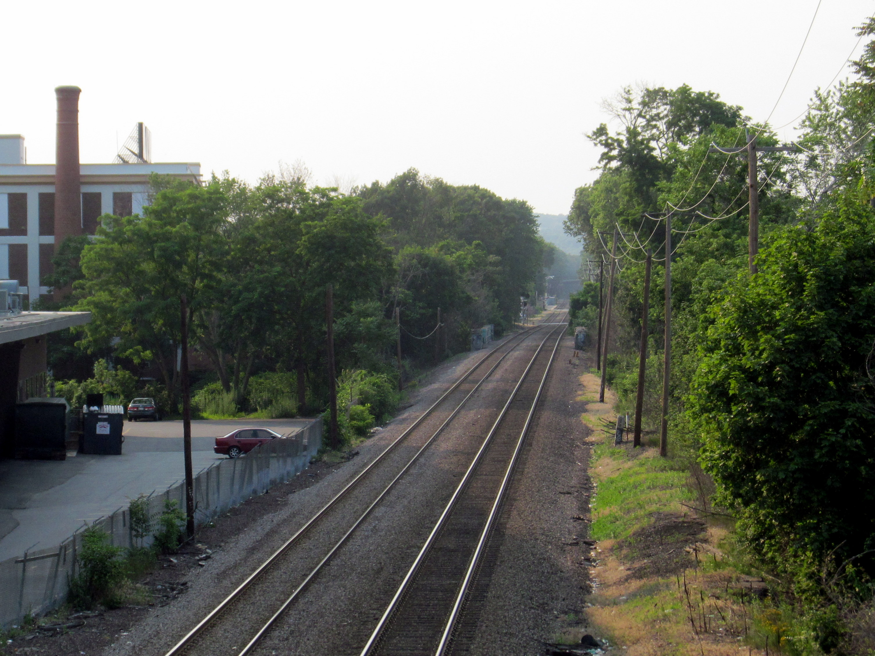 If built, Route 16 (Mystic Valley Parkway) station will be located where the clump of trees at left are in this July 2015 photograph